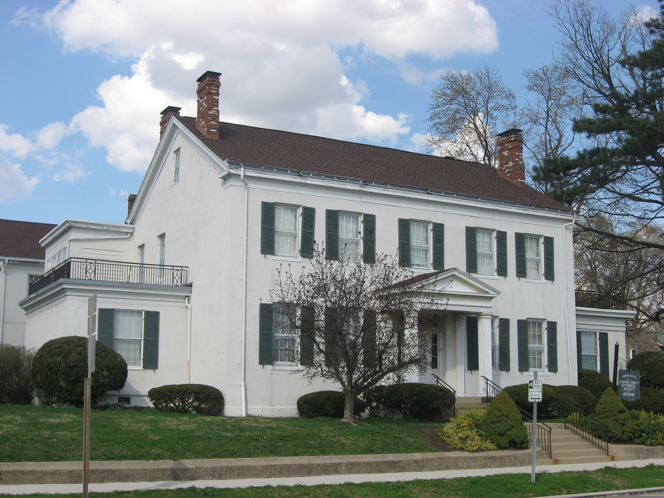 Front of the Rombach Place (now the Clinton County Historical Museum), located at 149 E. Locust Street (U.S. Route 22/State Route 3) in Wilmington, Ohio, United States. Built in 1831, it is listed on the National Register of Historic Places.